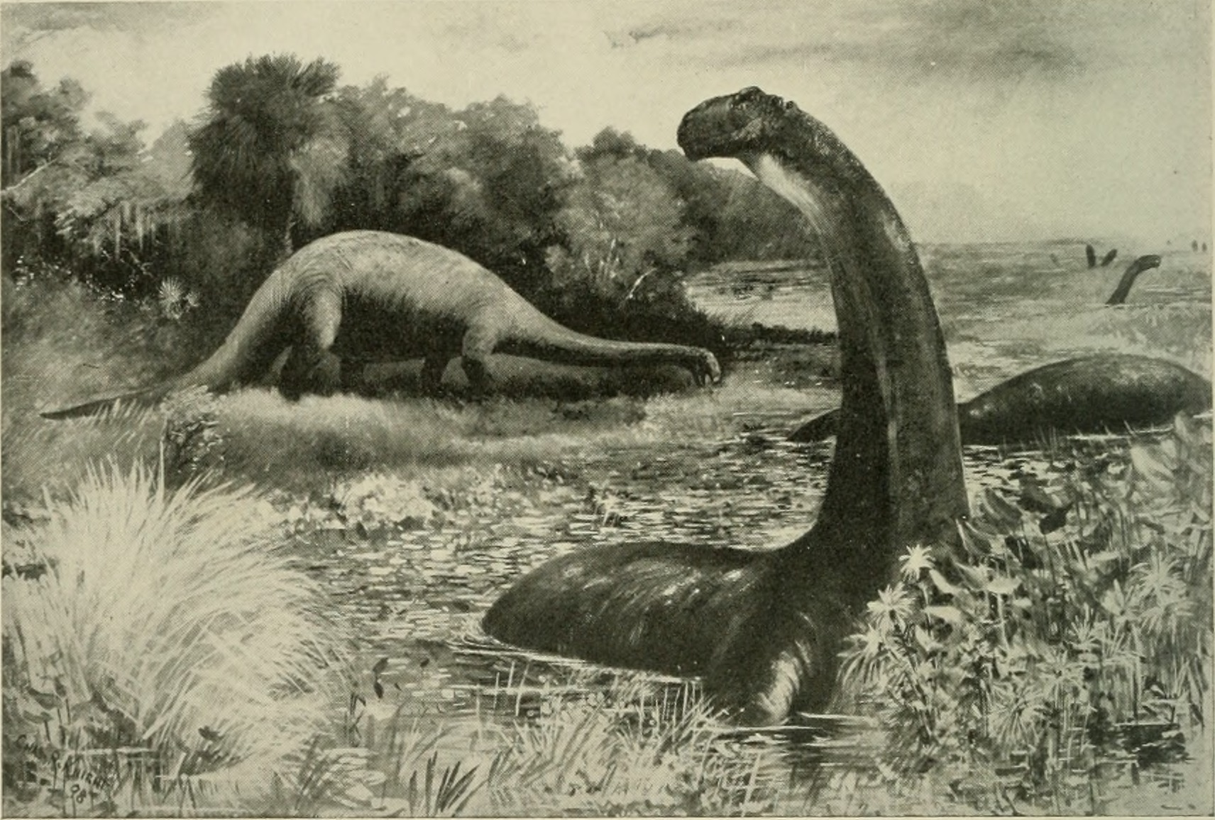 Title: The American Museum journal Year: c1900-(1918) (c190s) Authors: American Museum of Natural History Subjects: Natural history Publisher: New York : American Museum of Natural History Text Appearing Before Image: 68 THE AMERICAN MUSEUM JOURNAL and skull, suggests that the animal was amphibious, living chiefly in shallow water, where it could wade about on the bottom, feeding on the abundant vegetation of the coastal swamps and marshes, and pretty much out of reach of the powerful and ac- tive Carnivorous Dinosaurs which were its principal enemies. Text Appearing After Image: F:Q. 4. RESTORATION OF BRONTOSAURUS. BY CHARLES R. KNIGHT This restoration represents Professor Osborn's view of the habits of the animal The water would buoy up the massive body and prevent its weight from pressihg too heavily on the imperfect joints of the limb- and foot-bones, which were covered during life with thick cartilage, like the joints of whales, seals and other aquatic ani- mals. If the full weight of the animal came on these imperfect joints, the cartilage would yield and the ends of the bones would grind against each other, thus preventing the limb from moving without tearing the joint to pieces. The massive, solid limb- and foot-bones weighted the limbs while immersed in water, and served the same purpose as the lead in a diver's shoes, enabling the Brontosaurus to walk about firmly and securely under water. On the other hand, the joints of the neck and back are ex- ceptionally broad, well-fitting and covered with a much thinner